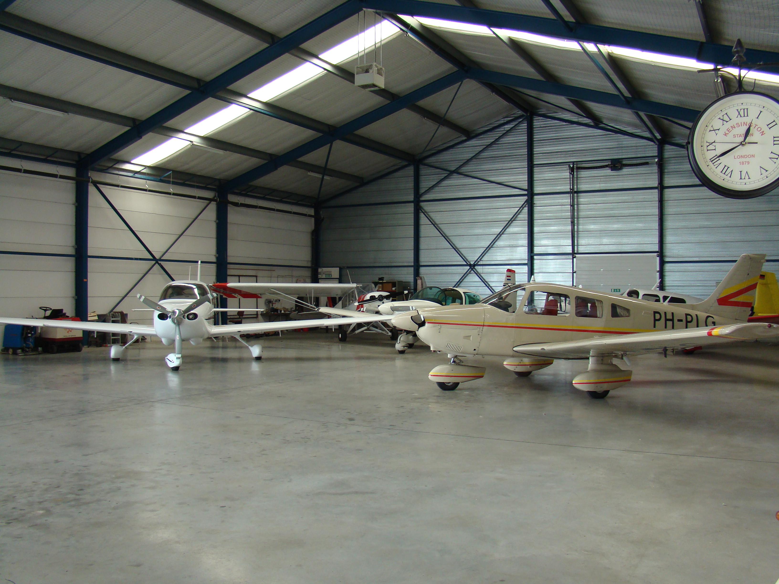 Teuge International Airport